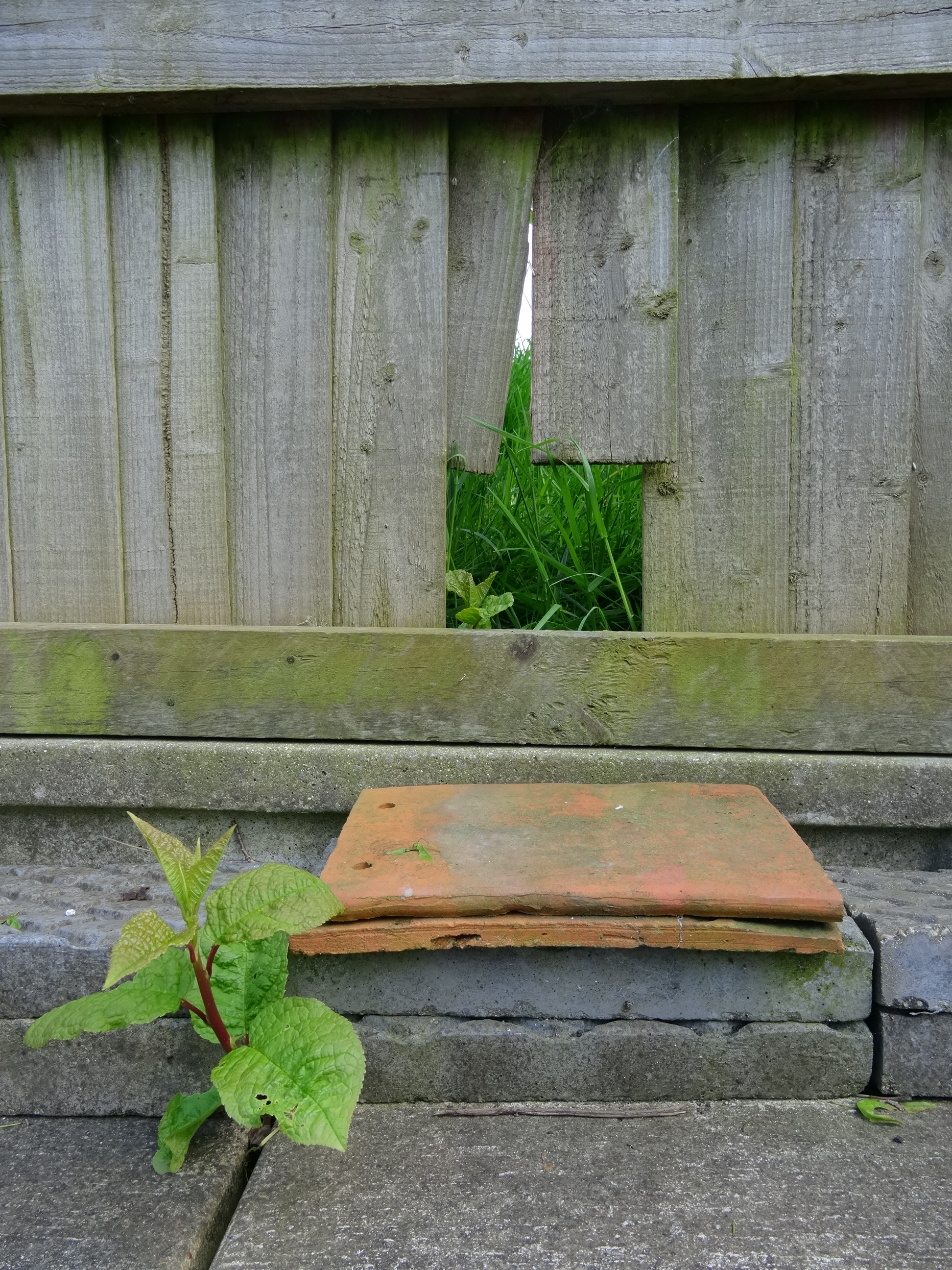 Linking gardens is central to Hedgehog Street as impermeable garden fences and walls are a key driver of the decline.